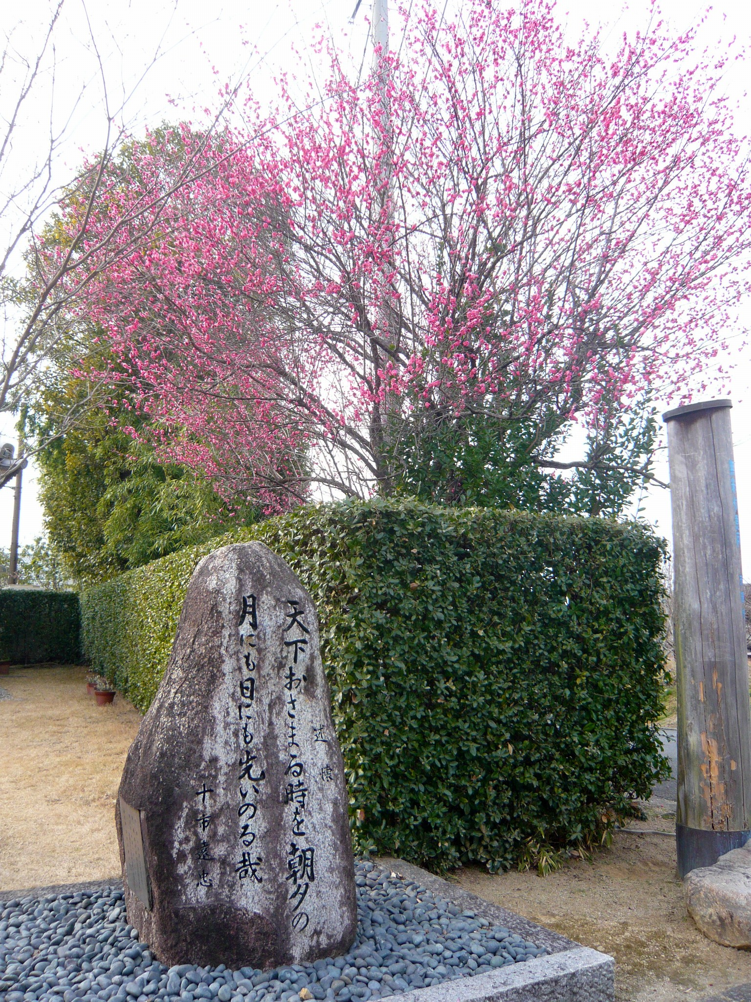 十市遠忠の歌碑 Ume blossoms and inscription of Toichi Tootada's waka poetry 2010.2.06